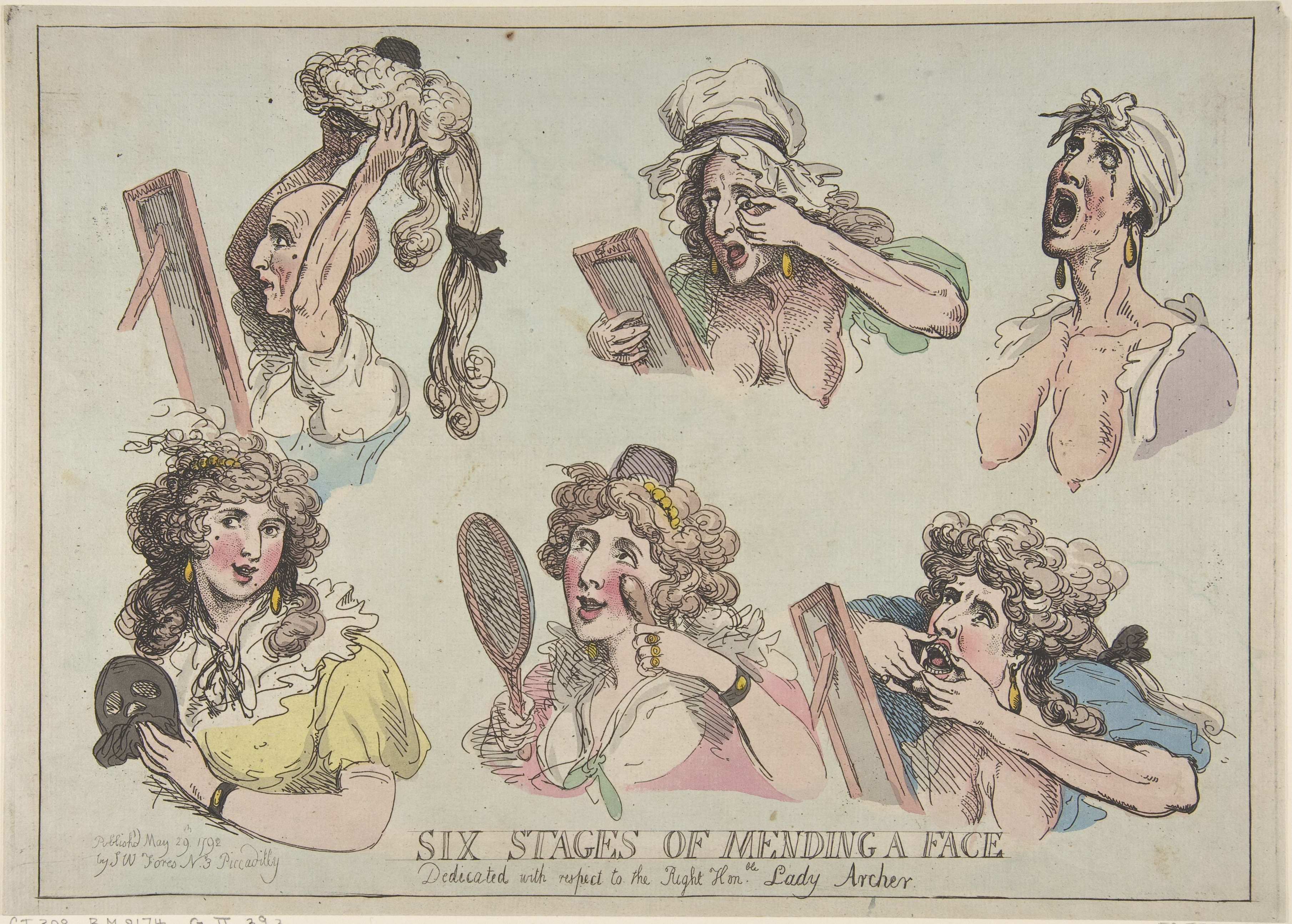 Print; Prints